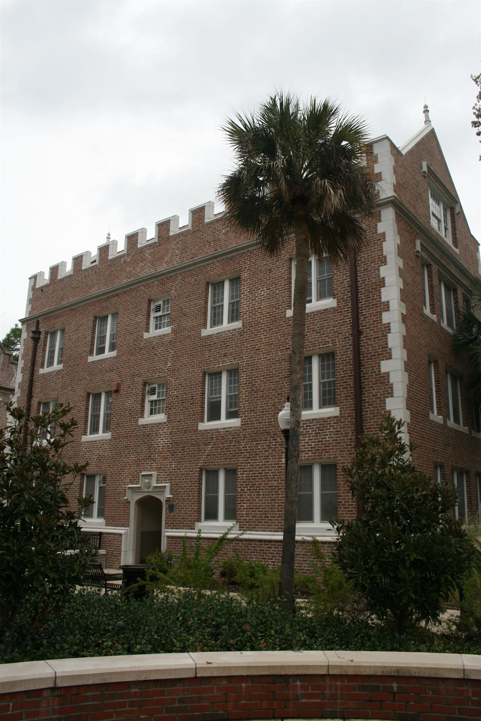 On 5 January 2007 I took pictures of most of the buildings on the UF campus that are designated National Historic Places. The only two buildings I didn't take pictures of are the Old WRUF station building and the Women's Gym. The day was overcast and about to rain so the skies aren't so great, but I think they get the job done. If I get any better shots of these buildings I'll upload them in place of the older ones. This message will be the same on all the images. --Douglas Whitaker 05:49, 6 January 2007 (UTC)